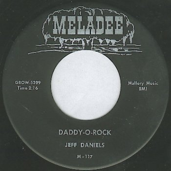 Record of Daddy-O-Rock by Luke McDaniel